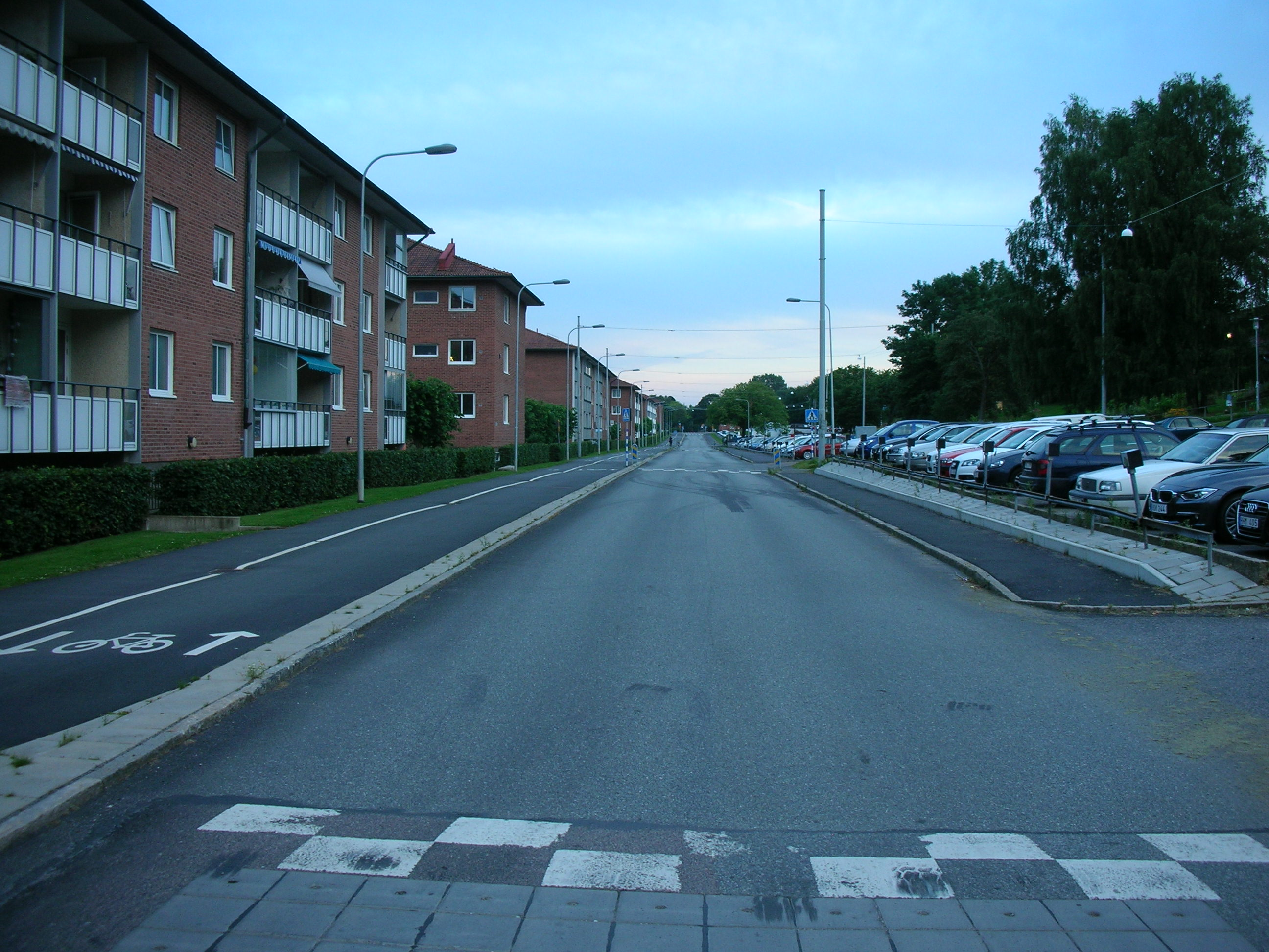 Kapplandsgatan viewed from its beginning in the direction of Tunnlandsgatan. 6 augusti 2015